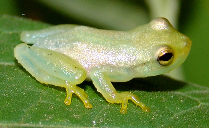 Phyllodytes luteolus. Watermark has been removed using the GIMP resynthesizer plugin (smart remove).